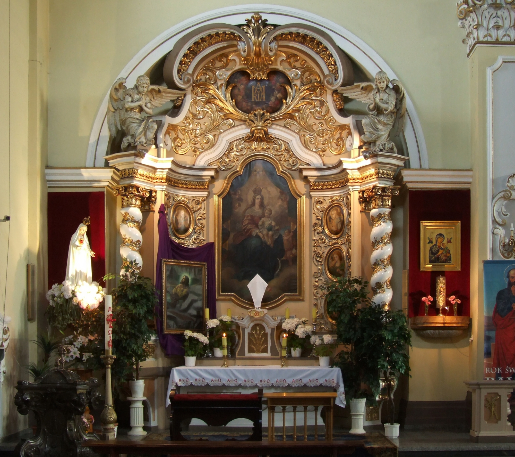 Corpus Christi Church in Olesno (Rosenberg), Upper Silesia. Side altar